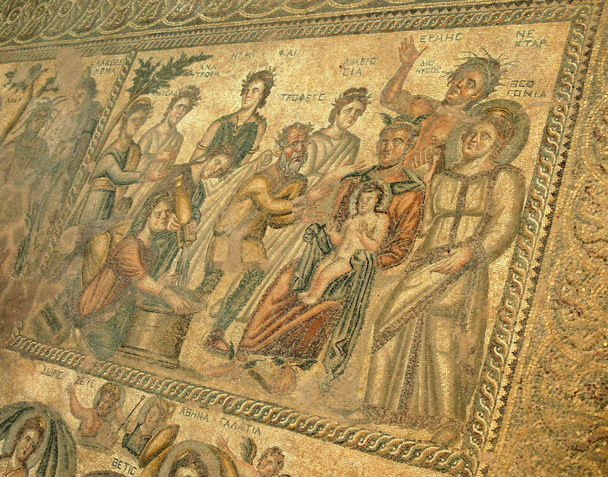 Paphos Archaeological Park. House of Aion: Birth of Dionysos - Young Dionysos sitting on the lap of Hermes is given to the silen Tropheus and the nymphs of Nysa